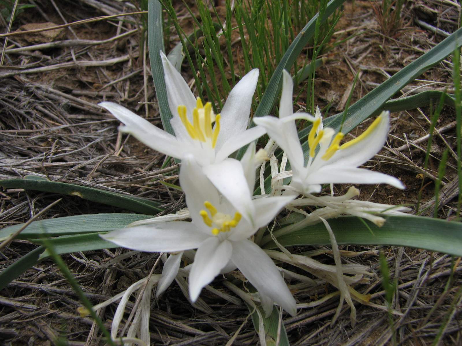 Photo by John P. Kole. Taken in Pawnee Grasslands (Northeastern Colorado) May 6, 2007.